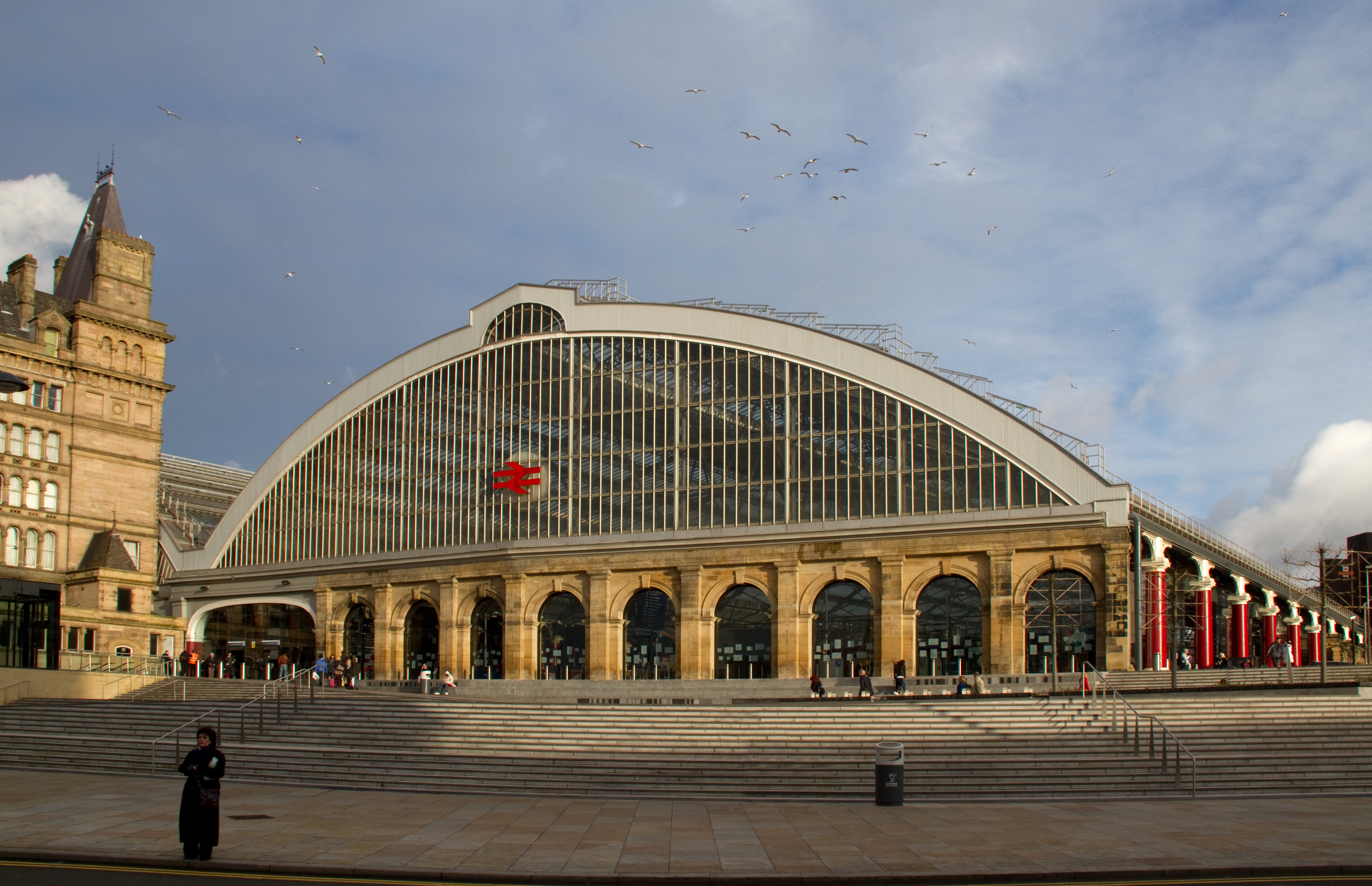 Lime Street Station Liverpool